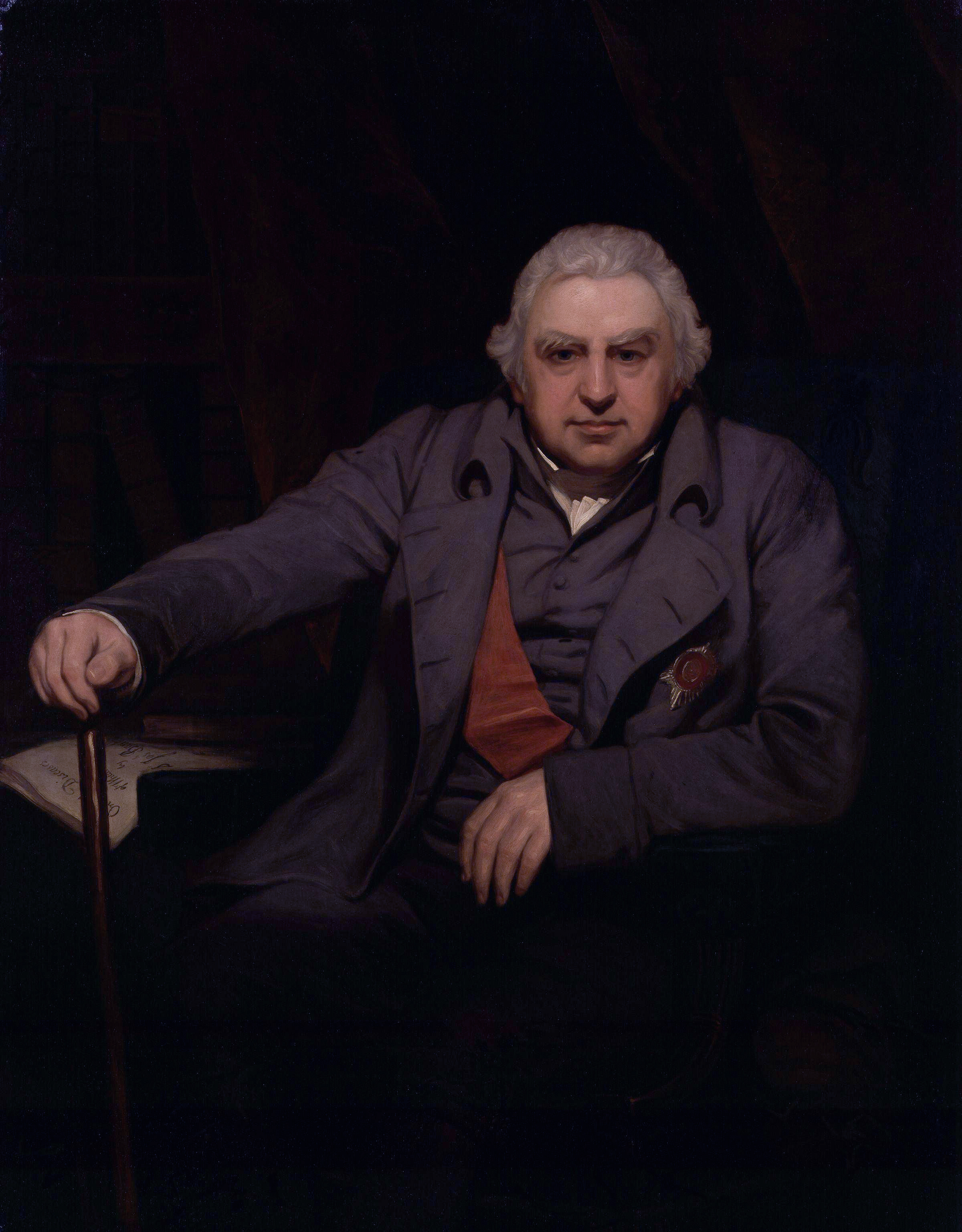 Sir Joseph Banks, Bt, by Thomas Phillips (died 1845). All images in this batch have been confirmed as author died before 1939 according to the official death date listed by the NPG.